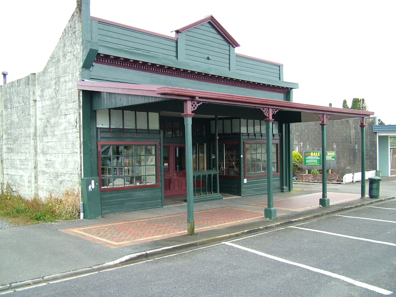 Raetihi is famous for it's historic buildings.